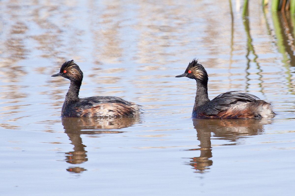 Two wet birds in adult breeding (alternate) plumage. Benton National Wildlife Refuge, Great Falls, MT, USA. July 15